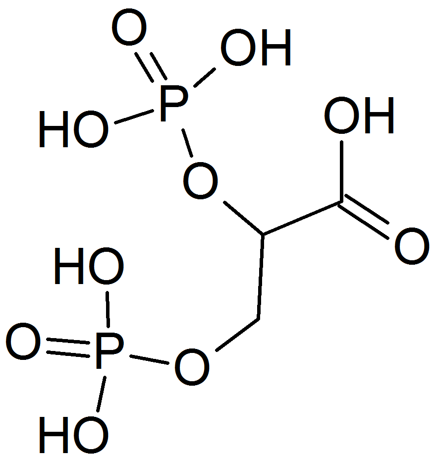 Structure of 2,3-bisphosphoglyceric acid